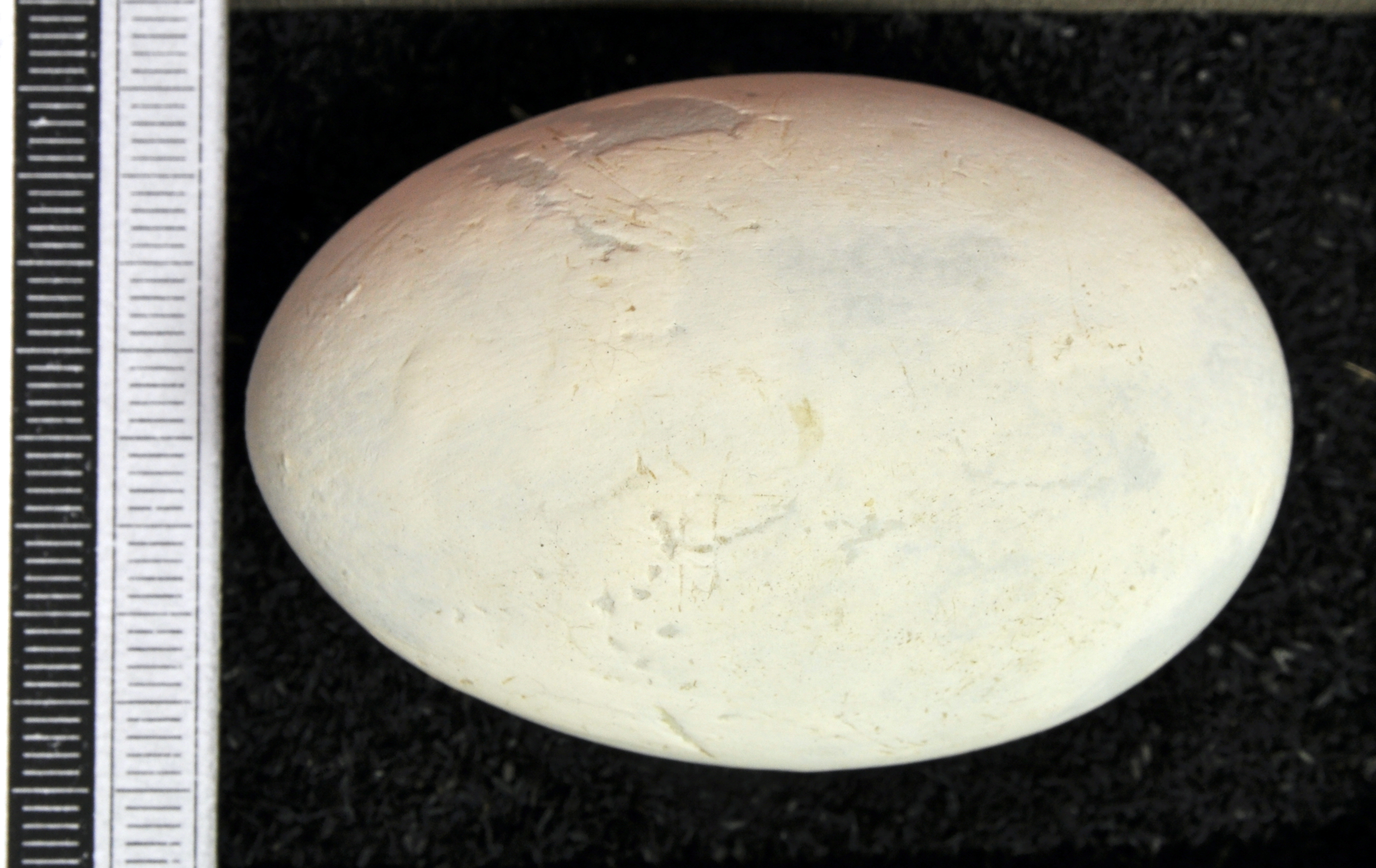 Great cormorant Phalacrocorax carbo , egg, Coll. Museum Wiesbaden